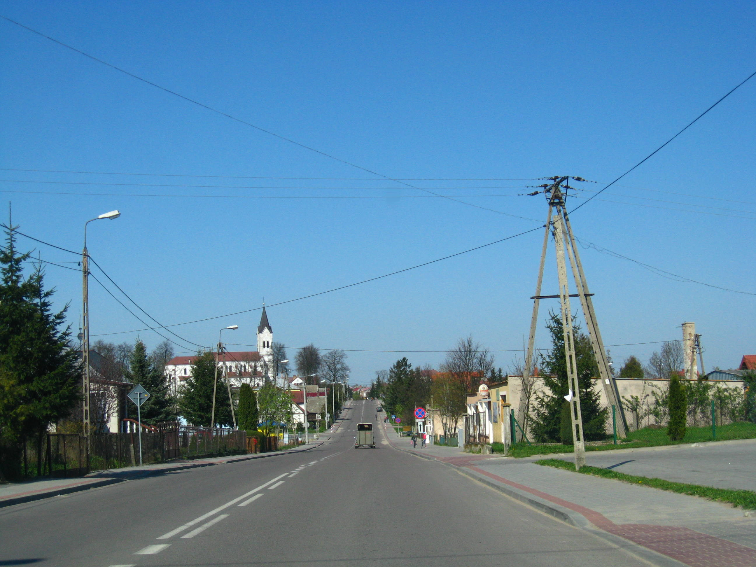 Krypno - main street; in background roman–catholic church of Birth of BVM, from years 1881-1885 (Shrine to the Virgin Mary)